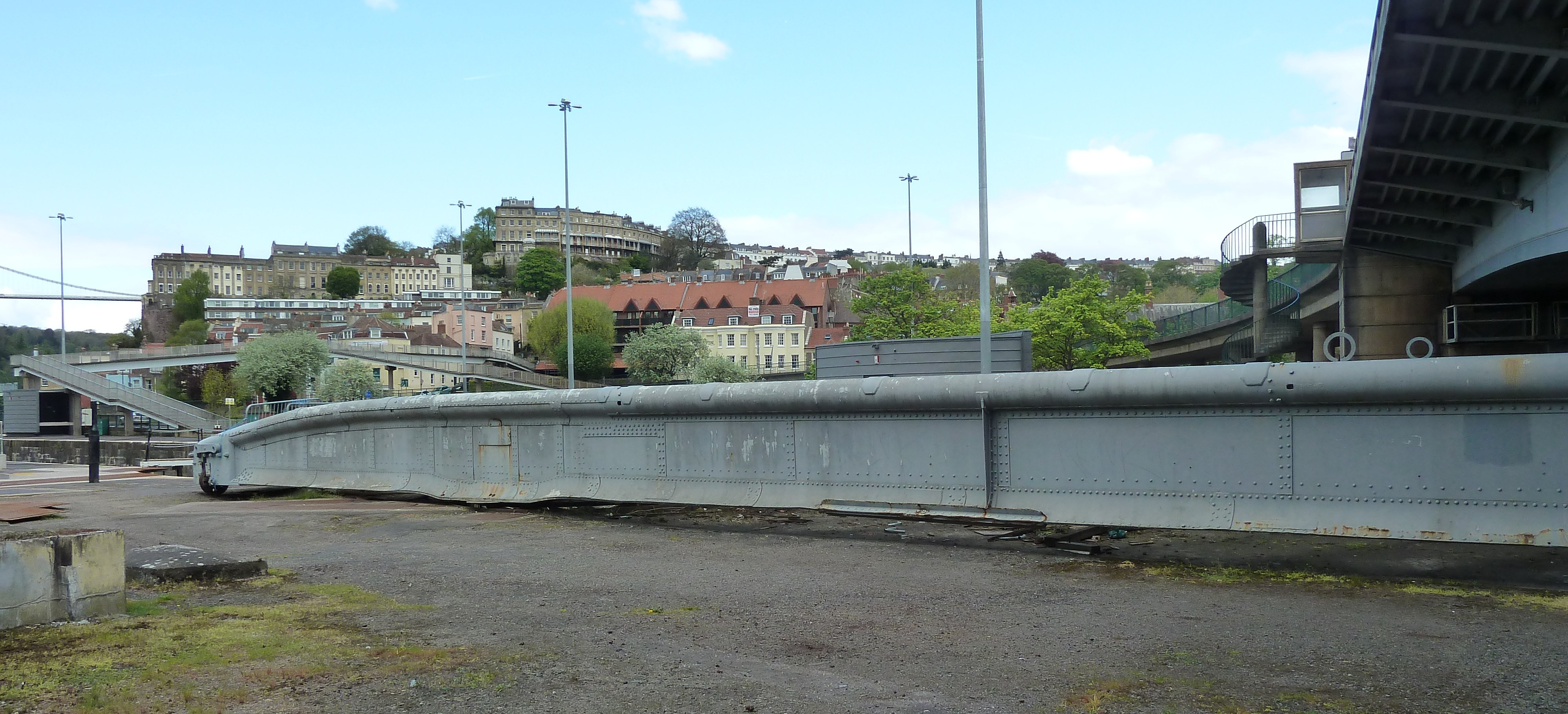 Brunel's tubular wrought iron bridges over the entrance locks to the Cumberland Basin, Bristol Docks.